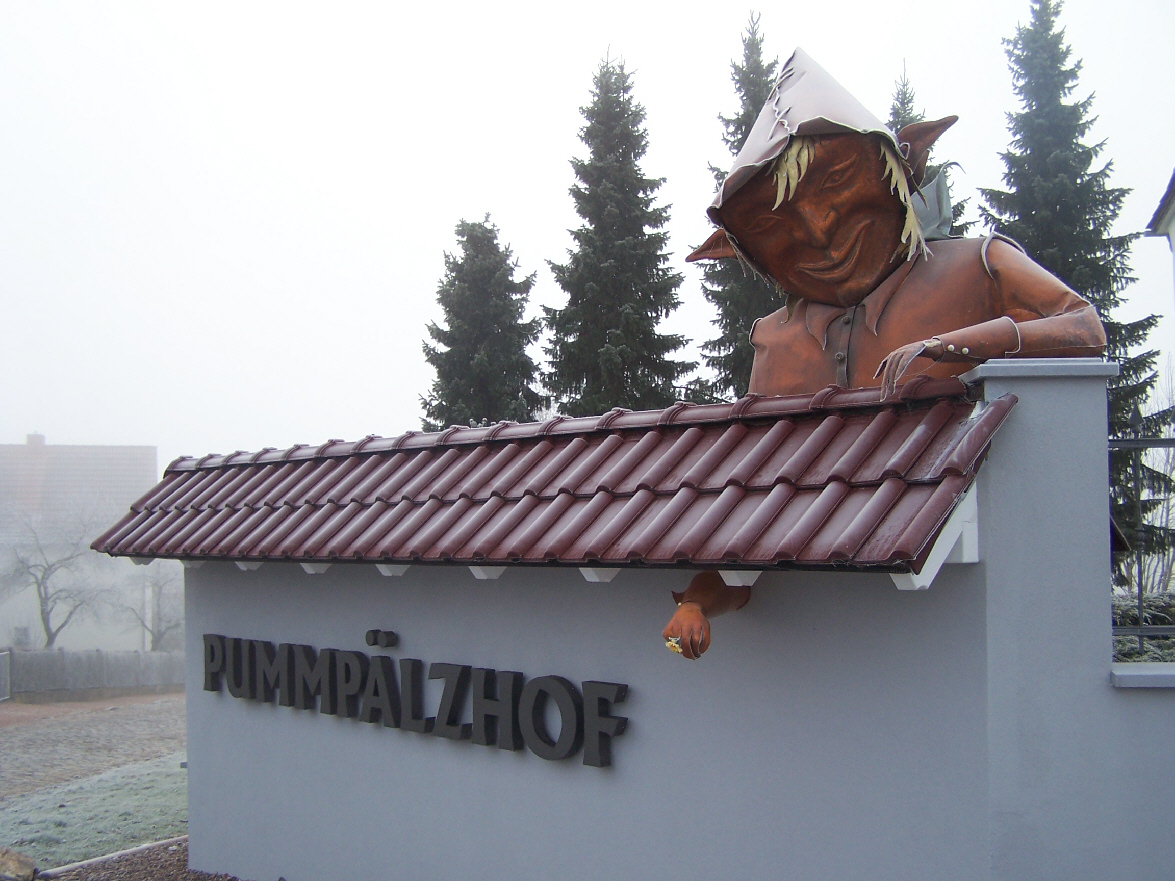 At the Pummpälzhof hotel in Witzelroda.